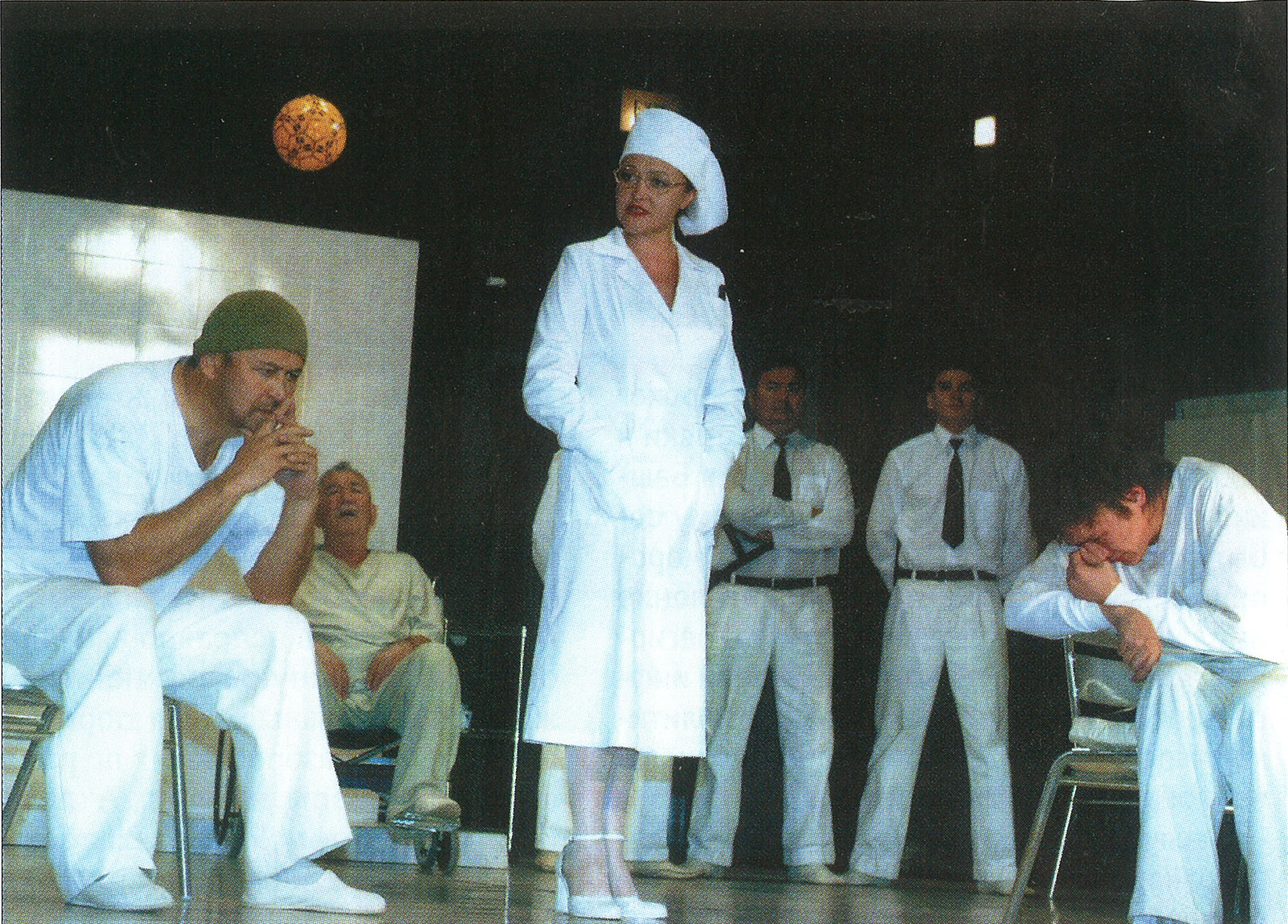 A scene from a Bashkir Academic Drama Theater's production of One Flew Over the cuckoo's Nest, based on Ken Kesey's novel of the same name.